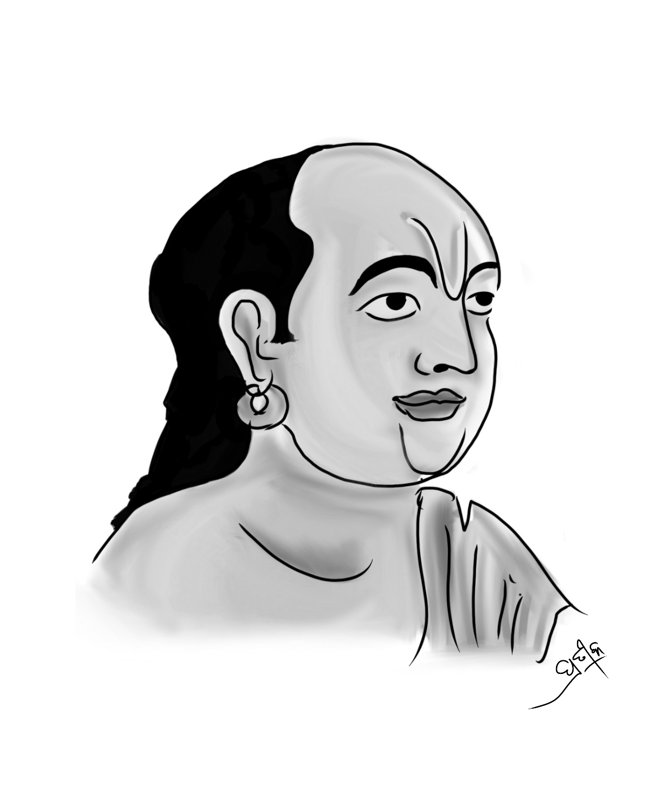 A modern painting of Odia Poet 'Kabisurya' Baladeba Ratha based on popular conception of the poet. Created using Procreate for iOS. ଓଡ଼ିଆ: କବିସୂର୍ଯ୍ୟ ବଳଦେବ ରଥଙ୍କ ଏକ ଚିତ୍ର। Procreate(iOS) ଆପ ଦ୍ୱାରା ଚିତ୍ରିତ ।